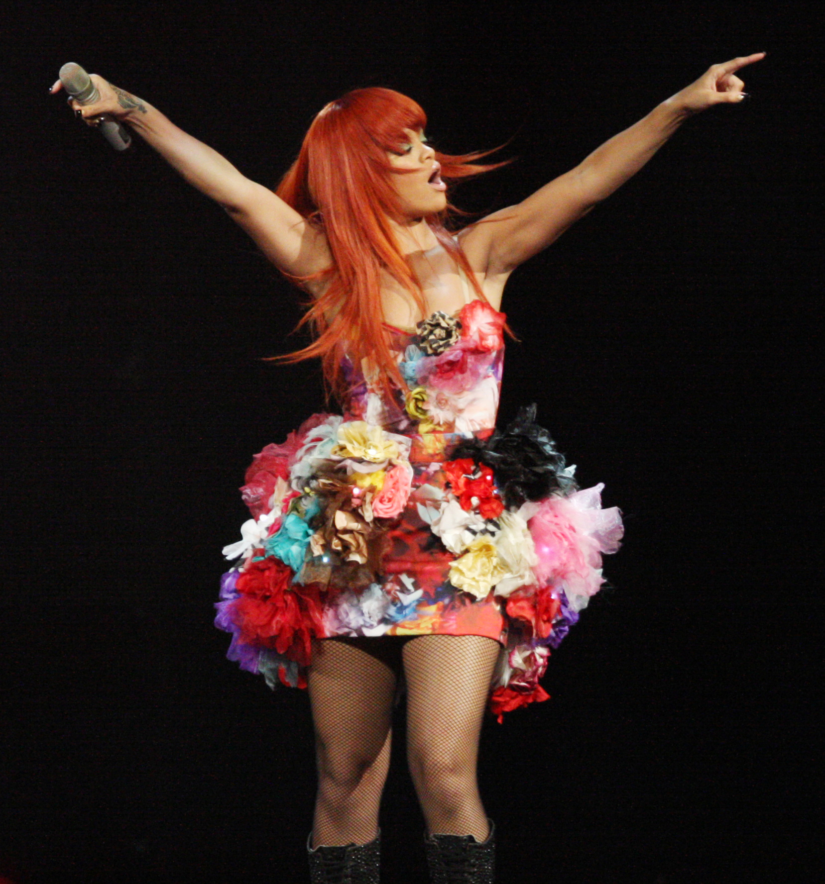 Rihanna performing at her Last Girl On Earth Tour in Sydney, Australia in March 2011.